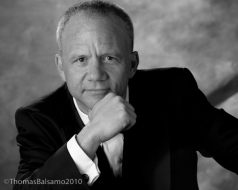 Picture of Tad Waddingon